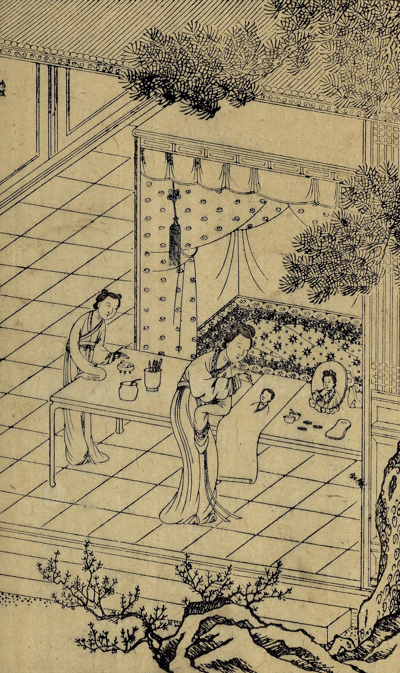 The Peony Pavilion Written by Tang Xianzu, Ming dynasty Imprint by the Jiuwotang Hall, Wanli reign, Ming dynasty